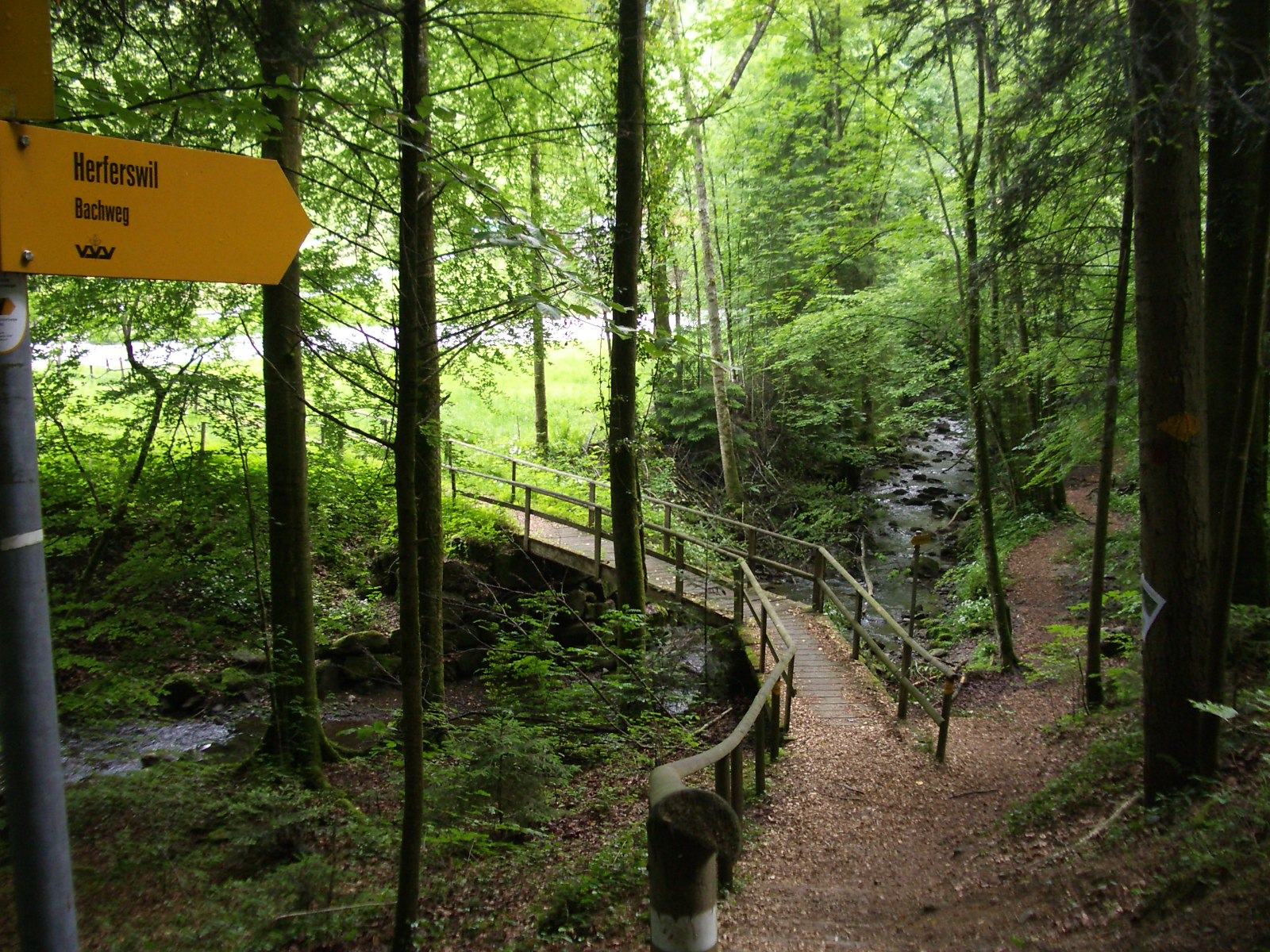 Aeugst am Albis ZH, Switzerland